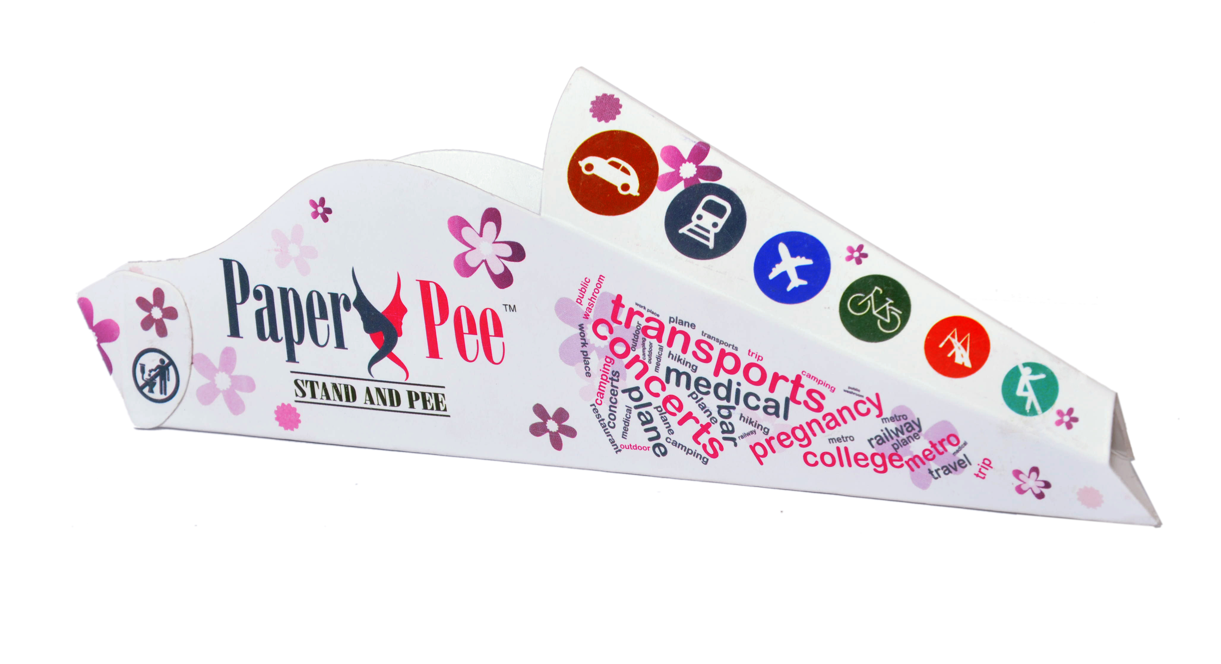 Paper Pee is a female Urination device.